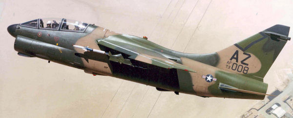 Prototype LTV YA-7K (S/N 73-1008) of the Arizona Air National Guard 1973: Delivered to 355th Tactical Fighter Wing/354th TFS, Davis-Monthan AFB, AZ (c/n D-404) Transferred to 354th Tactical Fighter Wing/355th TFS, Myrtle Beach AFB, SC, 1973 Transferred to 186th Tactical Fighter Squadron, OK Air National Guard, 1977 Removed from operational service, flown to LTV at Hensley Field (Naval Air Station Dallas) for modification to YA-7K, 1979 Delivered as A-7K to to 4450th Tactical Group/4451st TS, Nellis AFB, NV, 1981 Transferred to 152d Tactical Fighter Squadron, AZ Air National Guard, 1989 Transferred to 198th Tactical Fighter Squadron, PR Air National Guard, 1990 Transferred to AMARC as AE0033 Jun 19, 1991 Disposition: 15-JUN-98 / To Fritz Enterprises, Taylor, MI. (Actually to HVF West yard, Tucson). Scrapped.